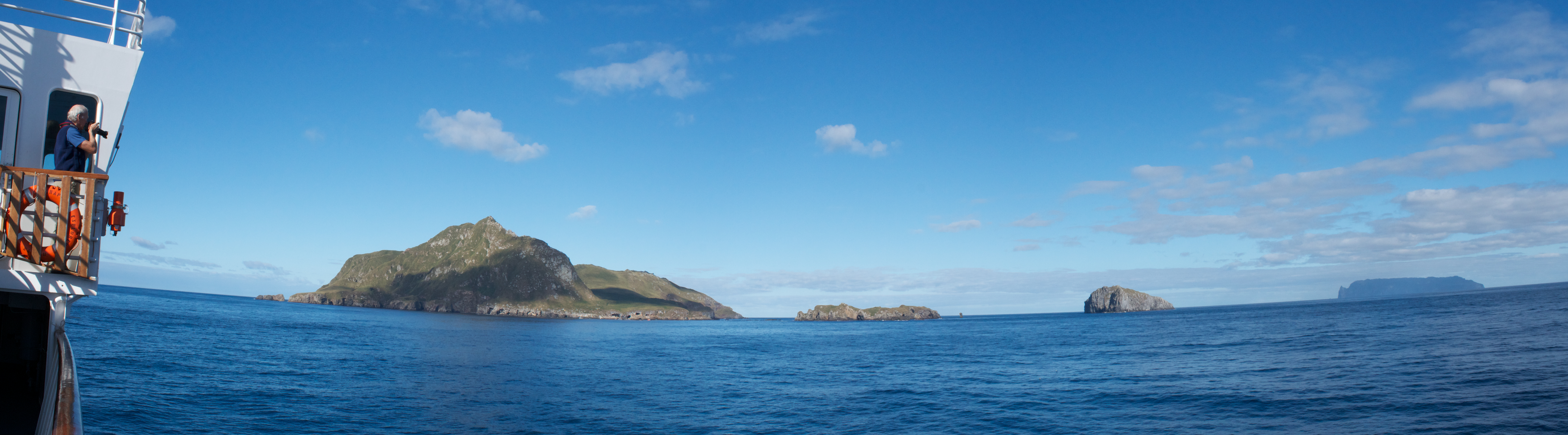 View of Nightingale and Inaccessible islands from the deck of National Geographic Explorer